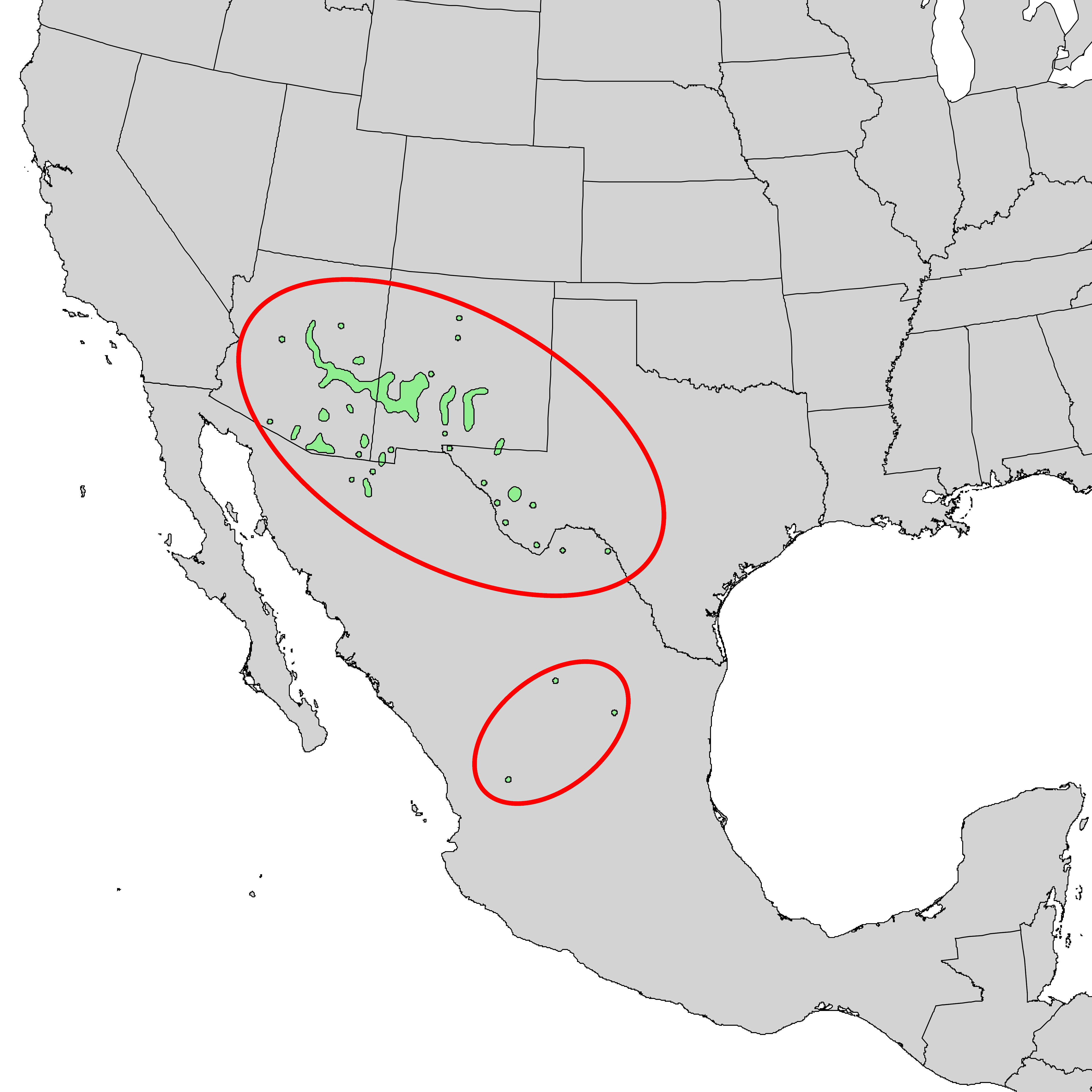 Natural distribution map for Cercocarpus breviflorus (hairy cercocarpus)